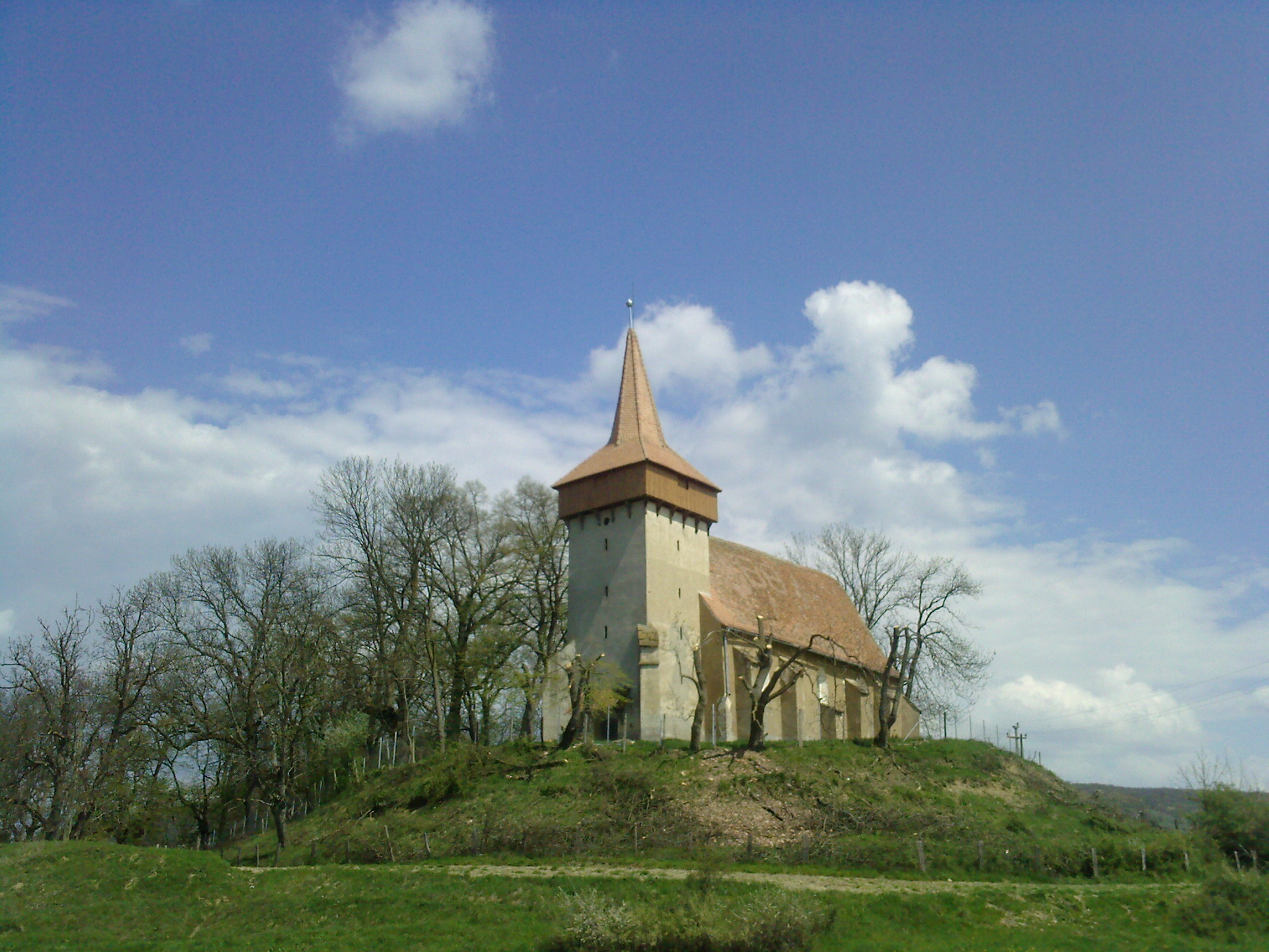 Evangelical Church, Hetiur, Mures County